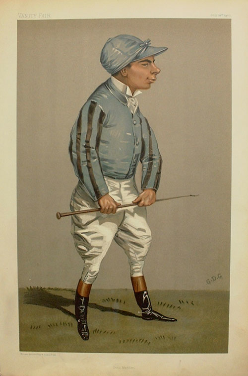 Men of the Day No.0785: Caricature of Madden, Herbert Otto (1872 - 1942)[1]. Caption reads: "Otto Madden"